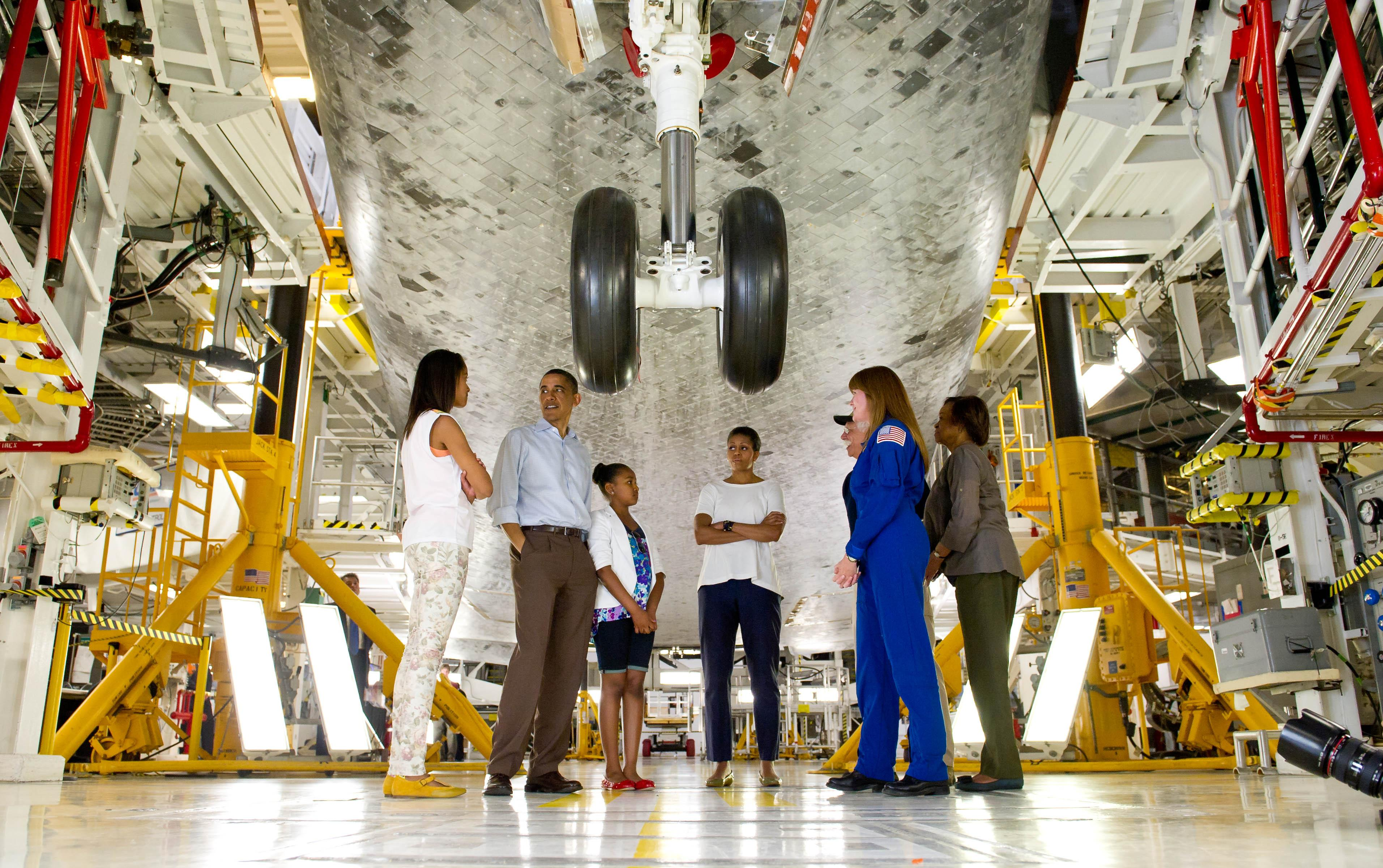 President Barack Obama, First Lady Michelle Obama, daughters Malia, left, Sasha, Mrs. Obama's mother Marian Robinson, astronaut Janet Kavandi and United Space Alliance project lead for thermal protection systems Terry White, walk under the landing gear of the space shuttle Atlantis as they visit Kennedy Space Center in Cape Canaveral, Fla., Friday, April 29, 2011.